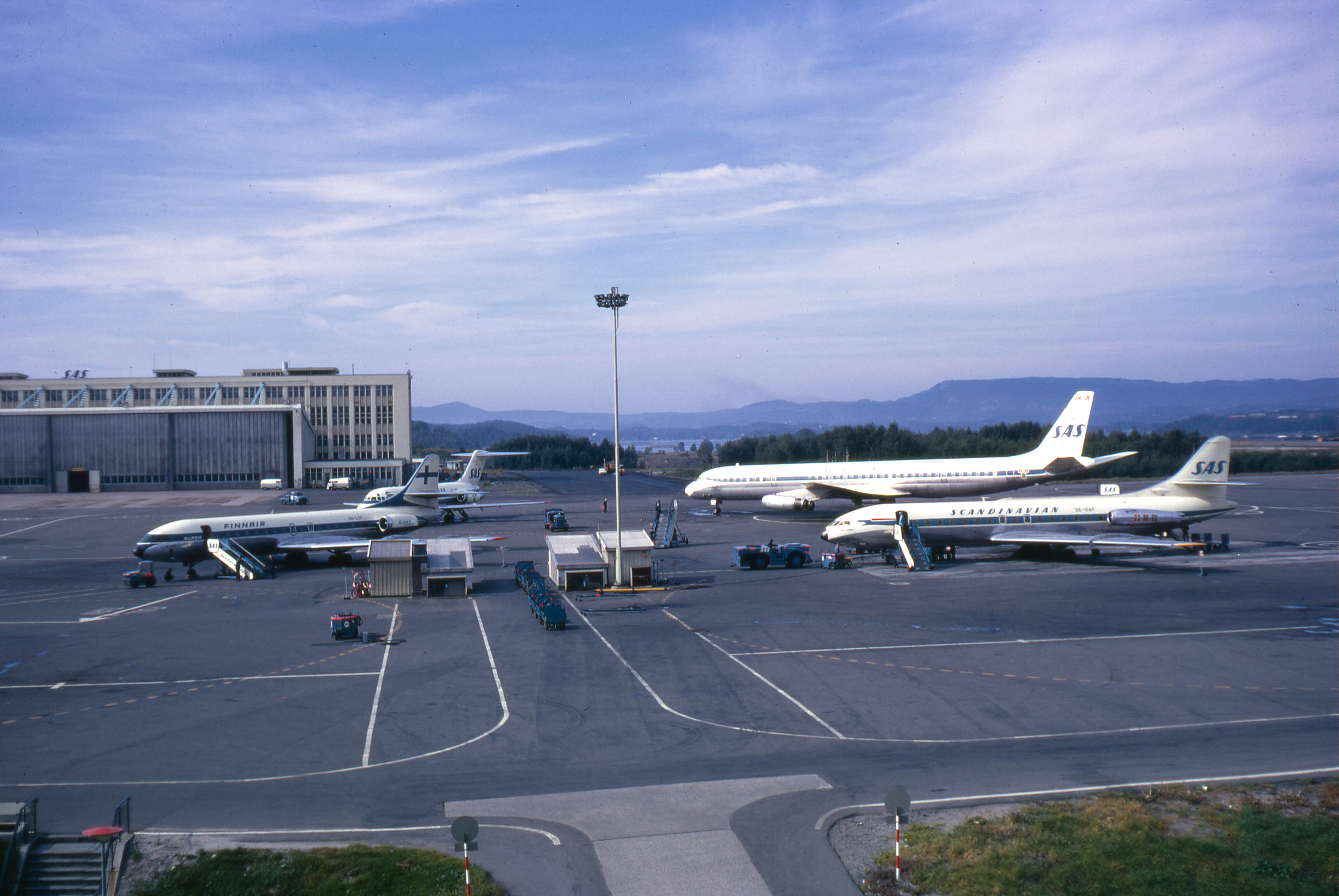 Aircraft at Oslo Airport, Fornebu: Sud SE-210 Caravelle 10B3 Super B (OH-LSF; Pori) of Finnair Sud SE-210 Caravelle III (SE-DAF) of SAS Scandinavian Airlines Douglas DC-8 of SAS Scandinavian Airlines Douglas DC-9 of SAS Scandinavian Airlines